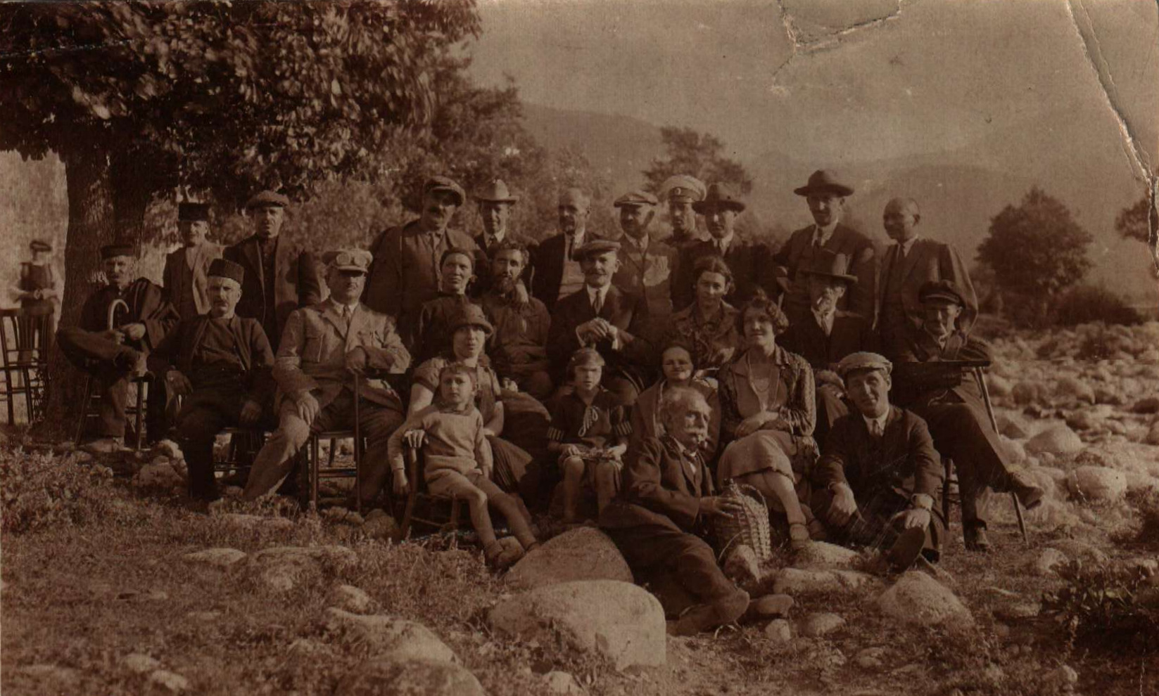 People of Bansko. Among them Yonko Vaptsarov.